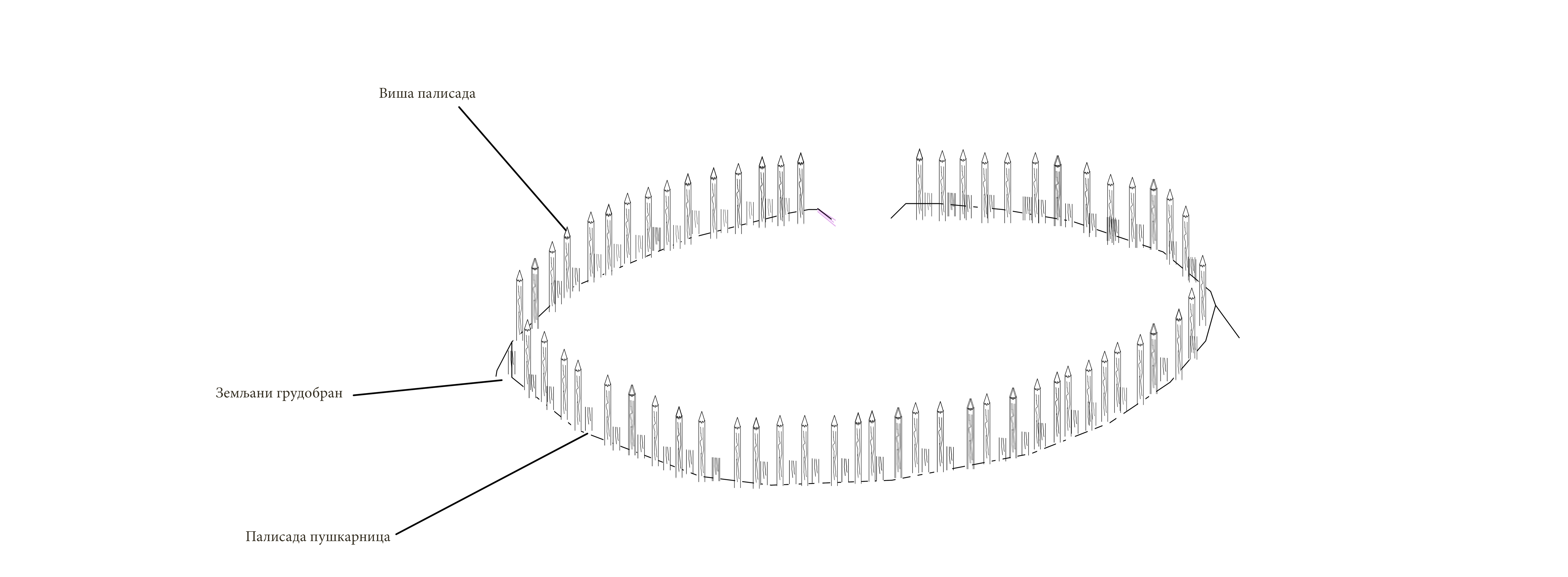 3D ilustration of shape of little sconce of battle of Ivankovac